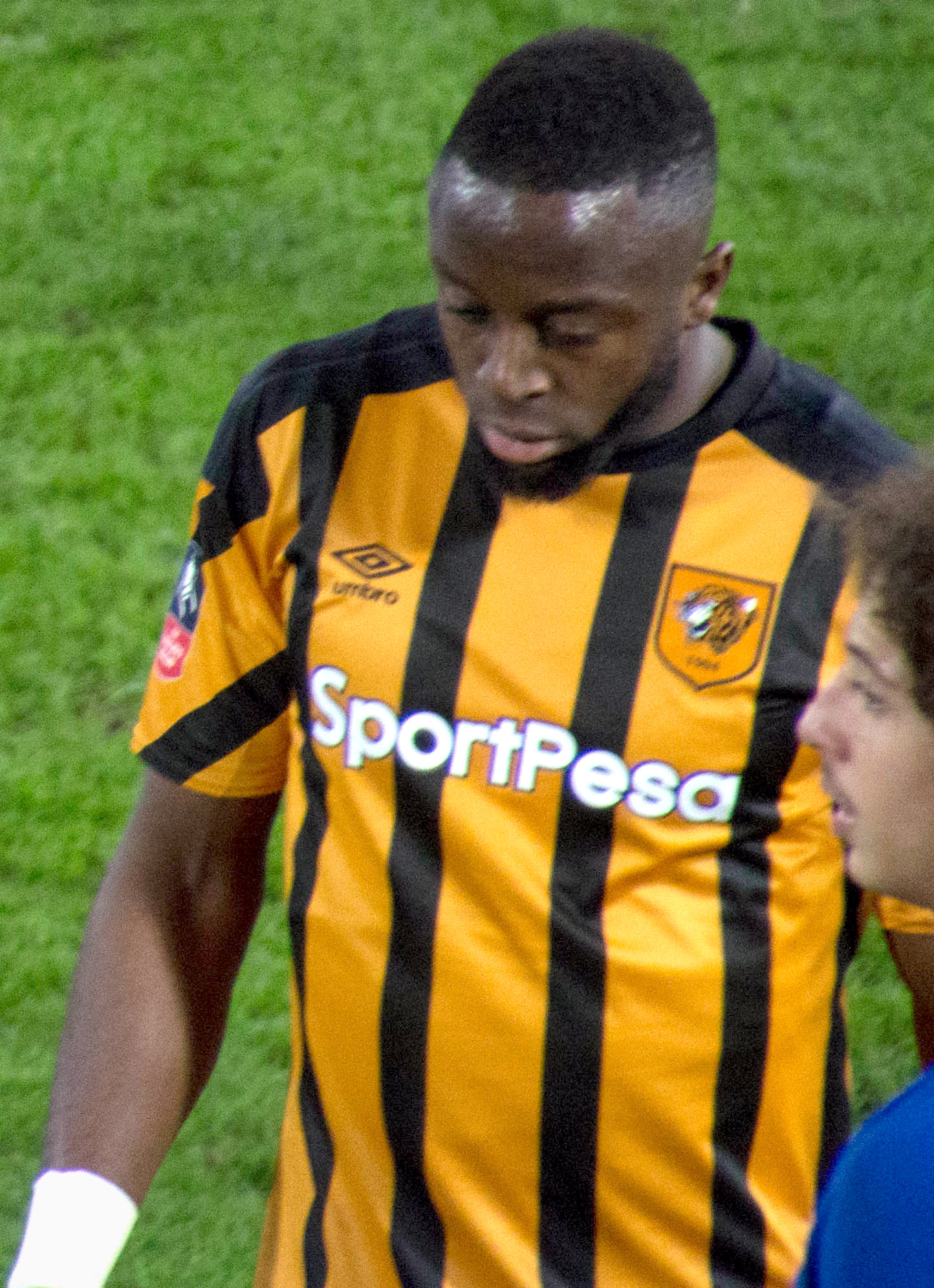 FA Cup 5th round 16.2.18